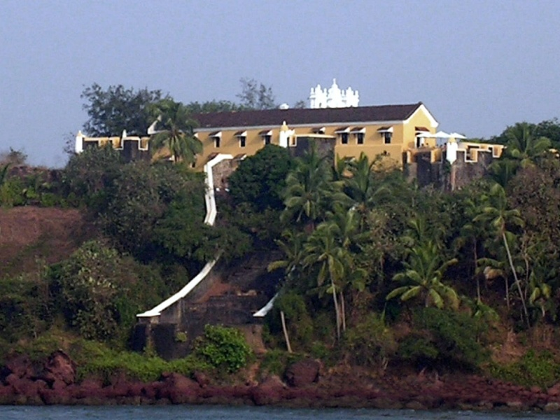 Taken from Terekhol river bank, We grant the right to use this work for any purpose